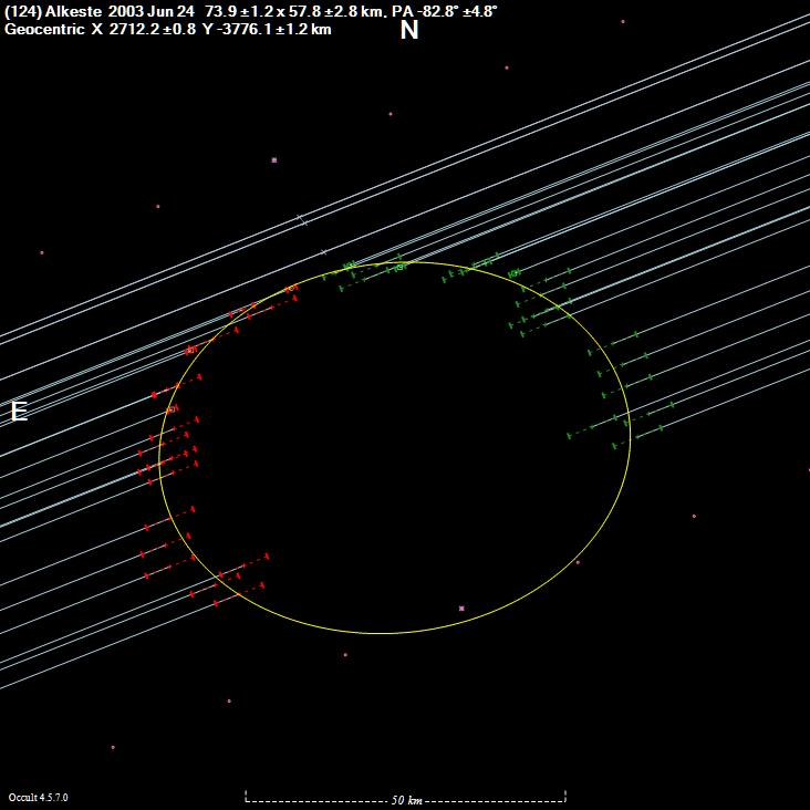 A 20-Chord Occultation plot of 124 Alkeste, observed 2003 June 24 by observers in Australia and New Zealand.